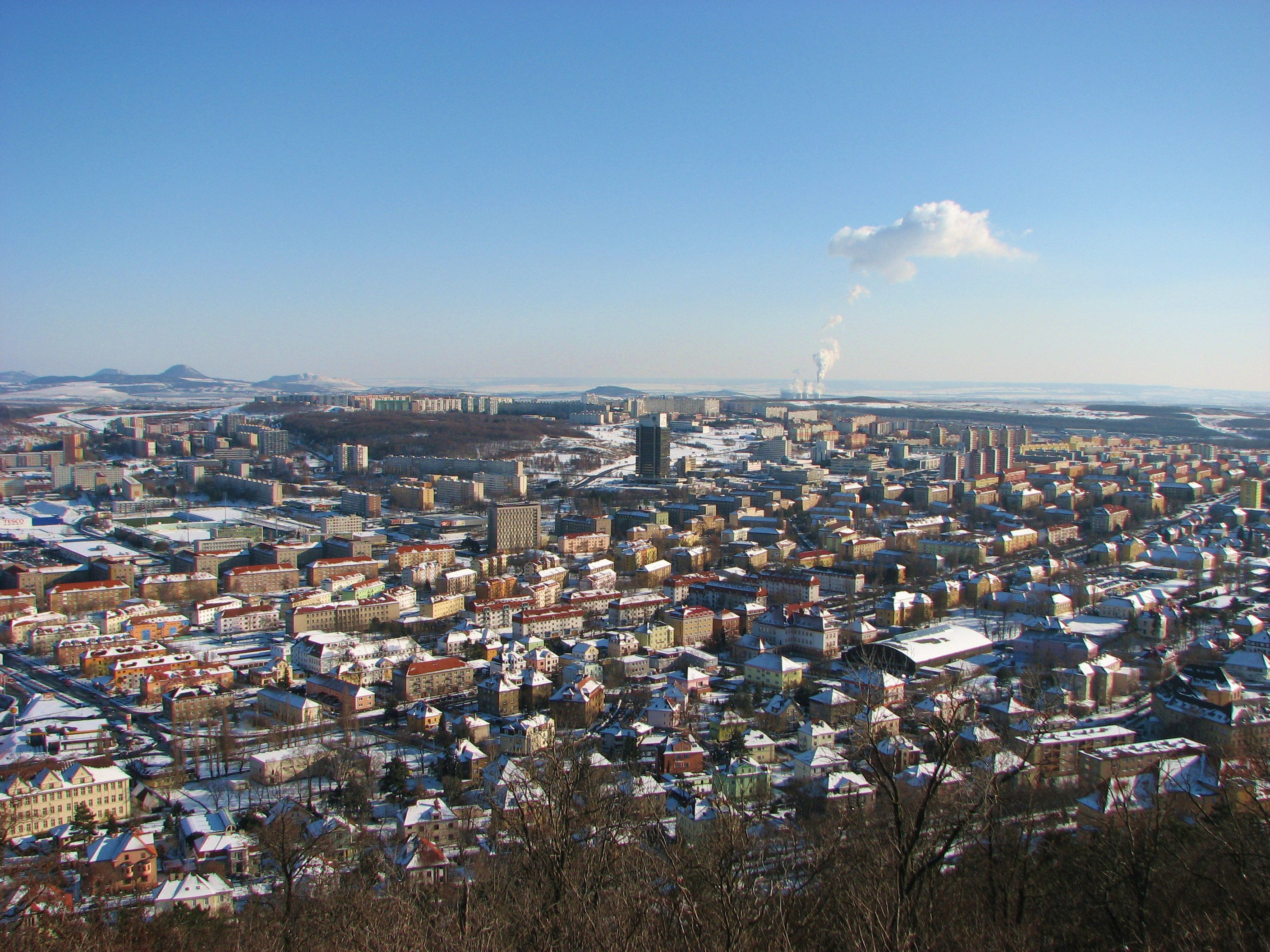 City of Most in North-West Bohemia viewed from Hnevin